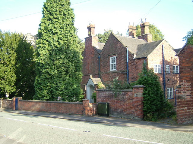 What a waste The lovely St John's Vicarage has been empty for some months - the church having no vicar - and must be getting towards some disrepair. A waste of a beautiful listed building.